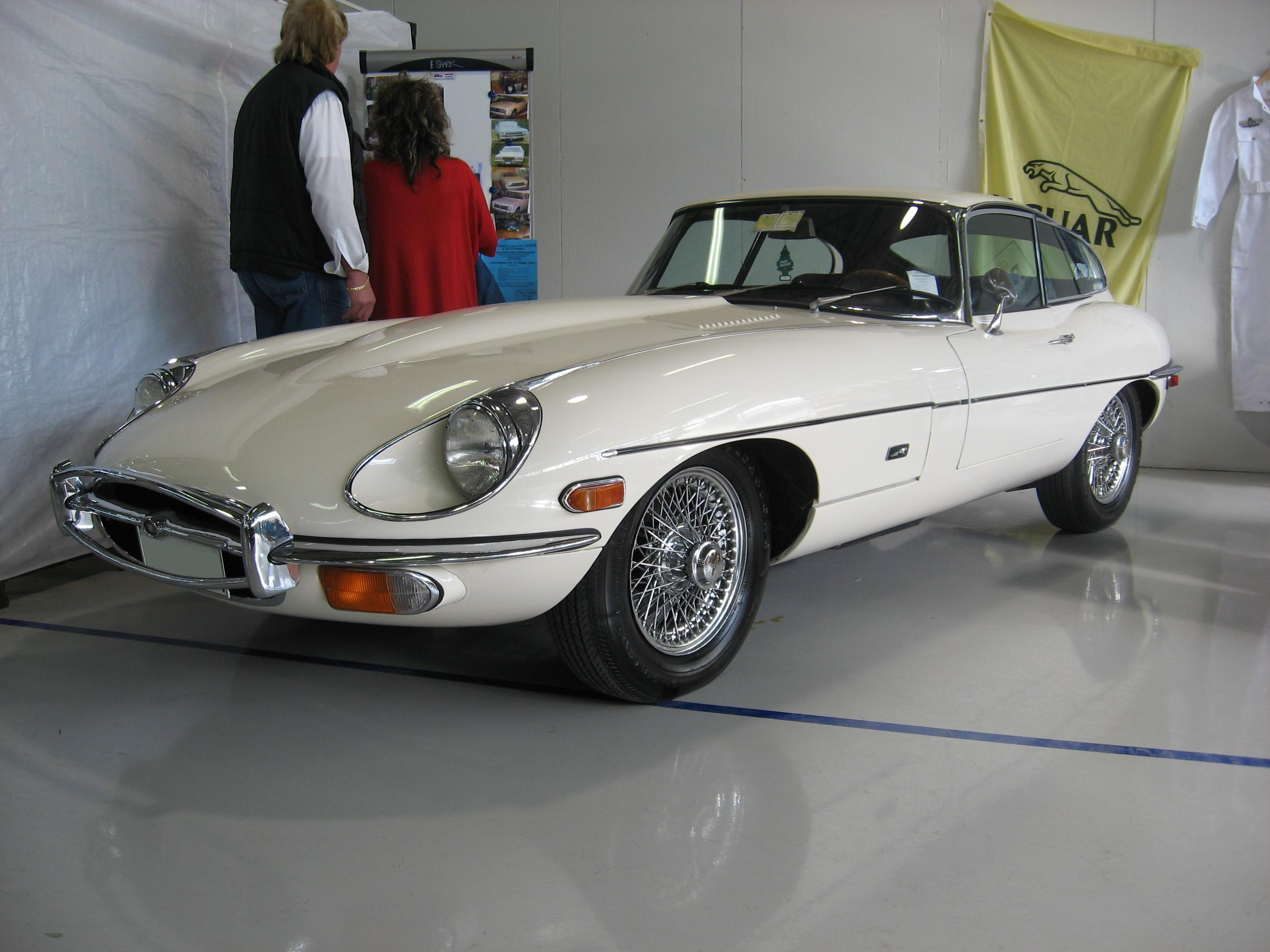 Subject: Jaguar E-Type Coupé Author:Luc106 Date:18 march 2007 City/Country: Forlì (Italy) Event: Old Time Show I release all rights in the public domain.